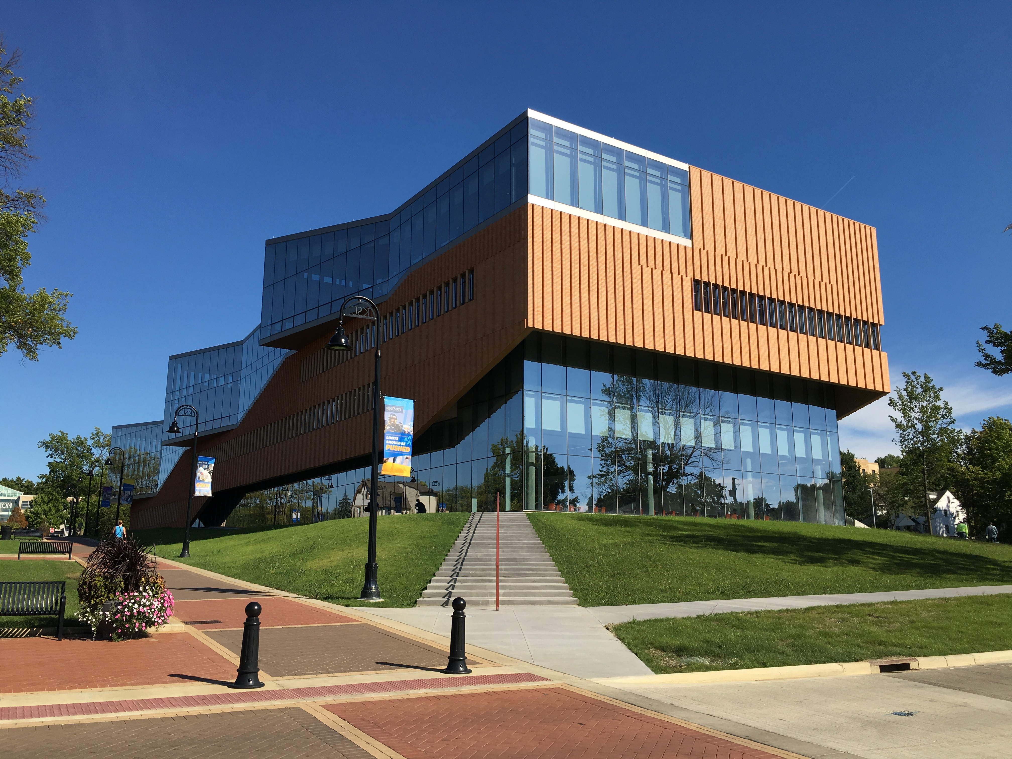 Exterior view of the College of Architecture and Environmental Design (CAED) building on the campus of Kent State University in Kent, Ohio, U.S.